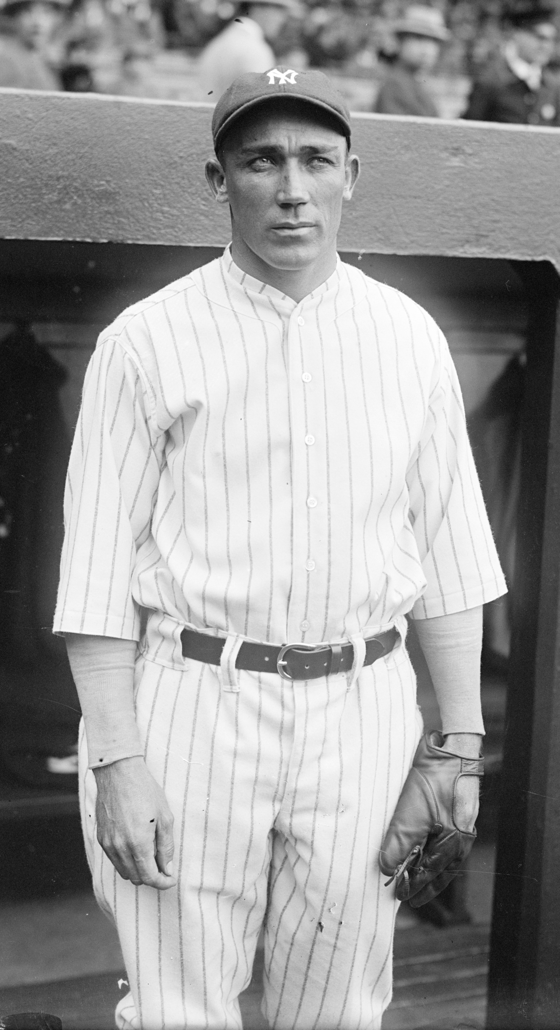 Ben Paschal, New York AL (baseball) MEDIUM: 1 negative : glass ; 5 × 7 in. or smaller.